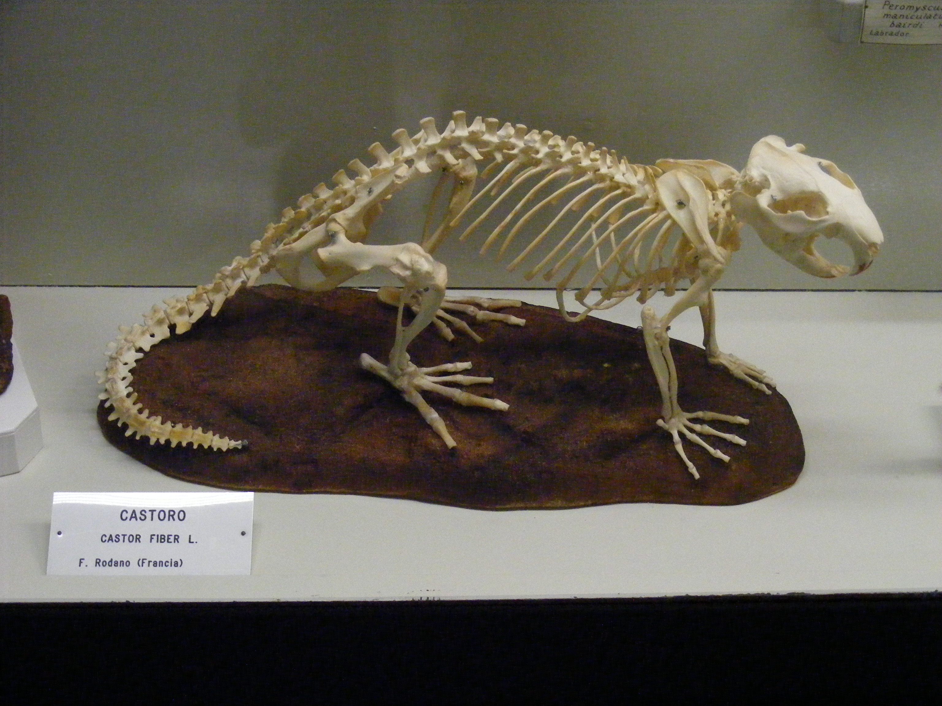 European beaver skeleton in the Natural History Museum of Genoa